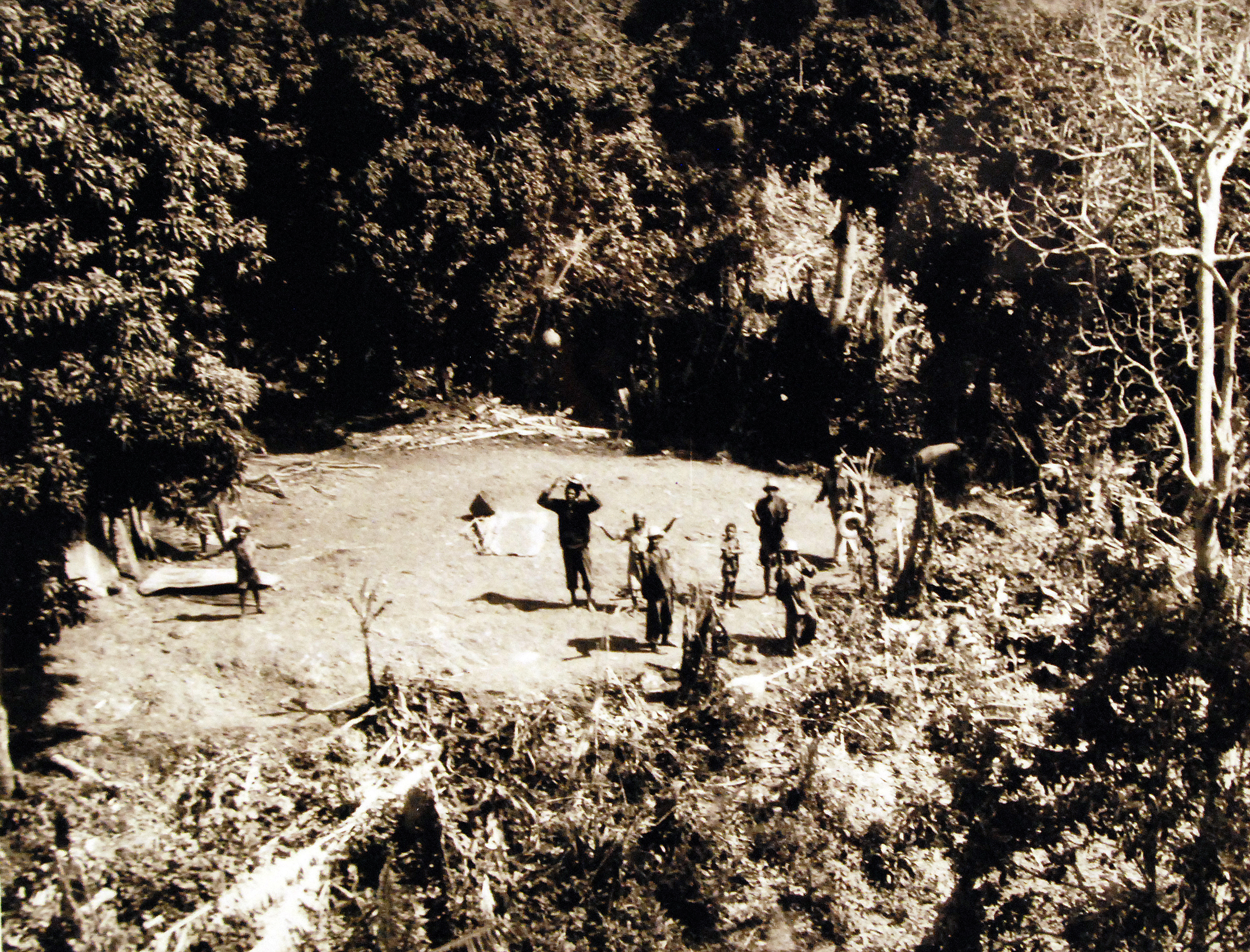 Isolated by Hurricane Flora in 1963, Haitians wave at a rescue helicopter from Anti-submarine Squadron 11. Helicopters from USS Lake Champlain and USS Thetis Bay flew some 271 sorties, evacuating an estimated 347 persons and air-lifting some 330,105 pounds of relief supplies